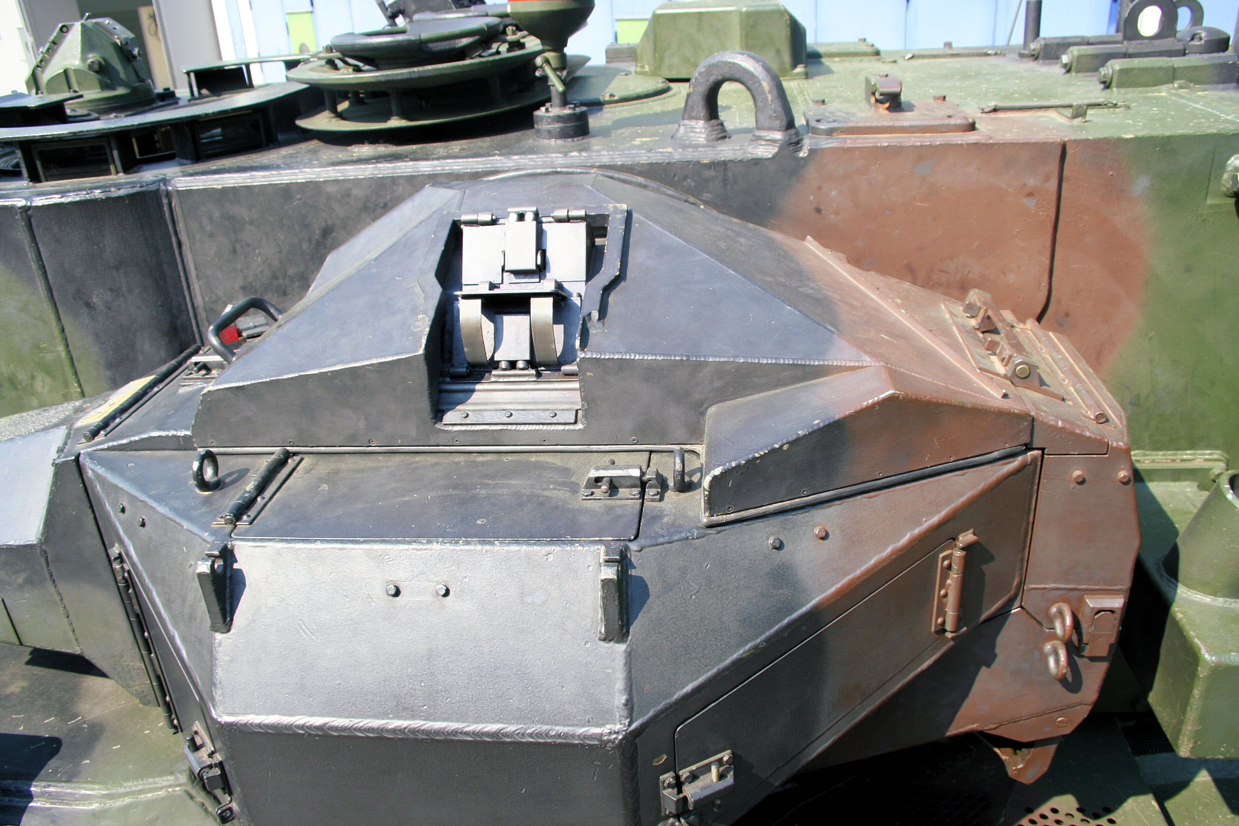 Gepard 1A2 Waffe links Gepard 1A2 left weapon